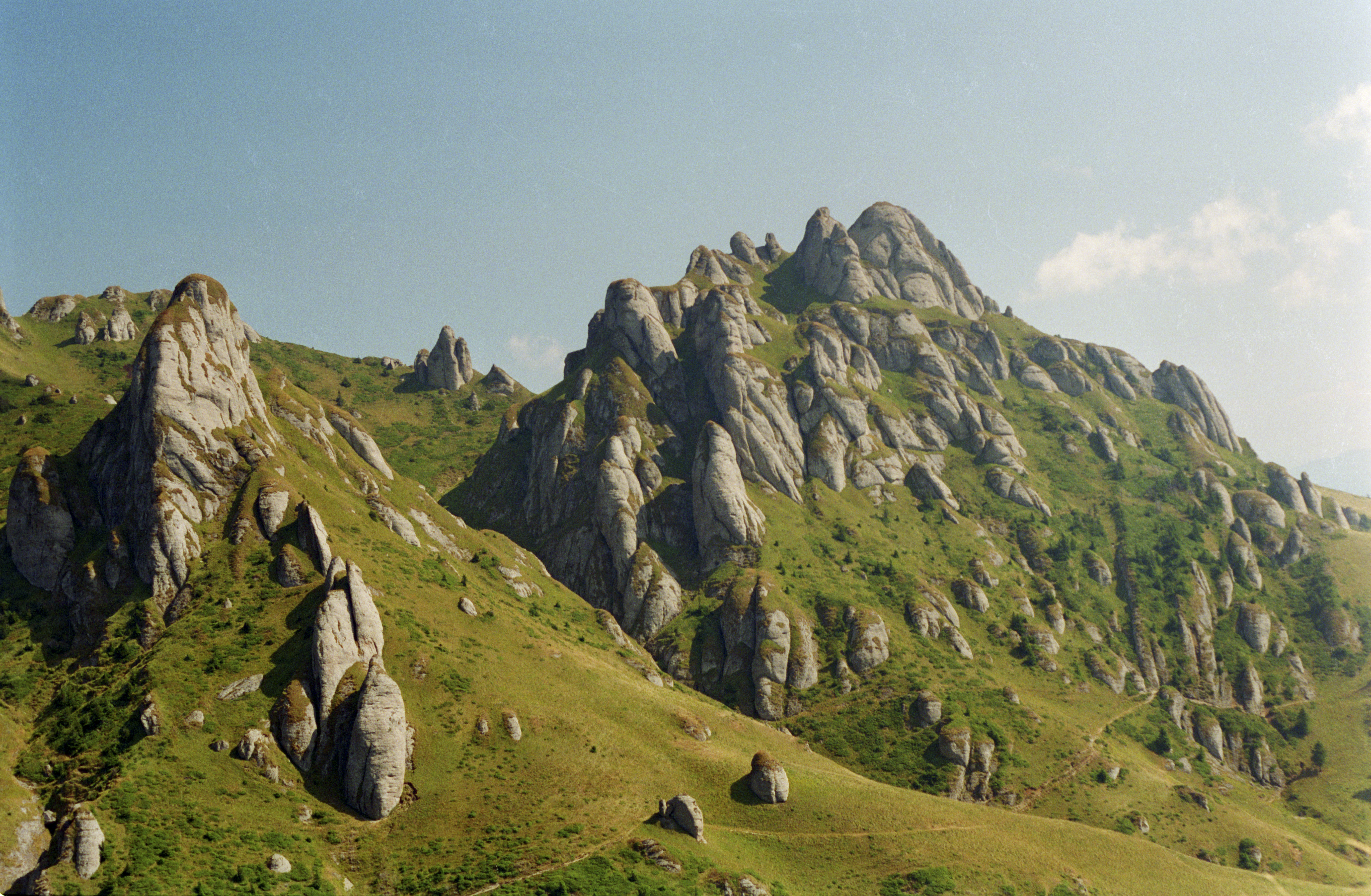 Ciucaș Mountains, RomaniaRomână: Munţii Ciucaş, România